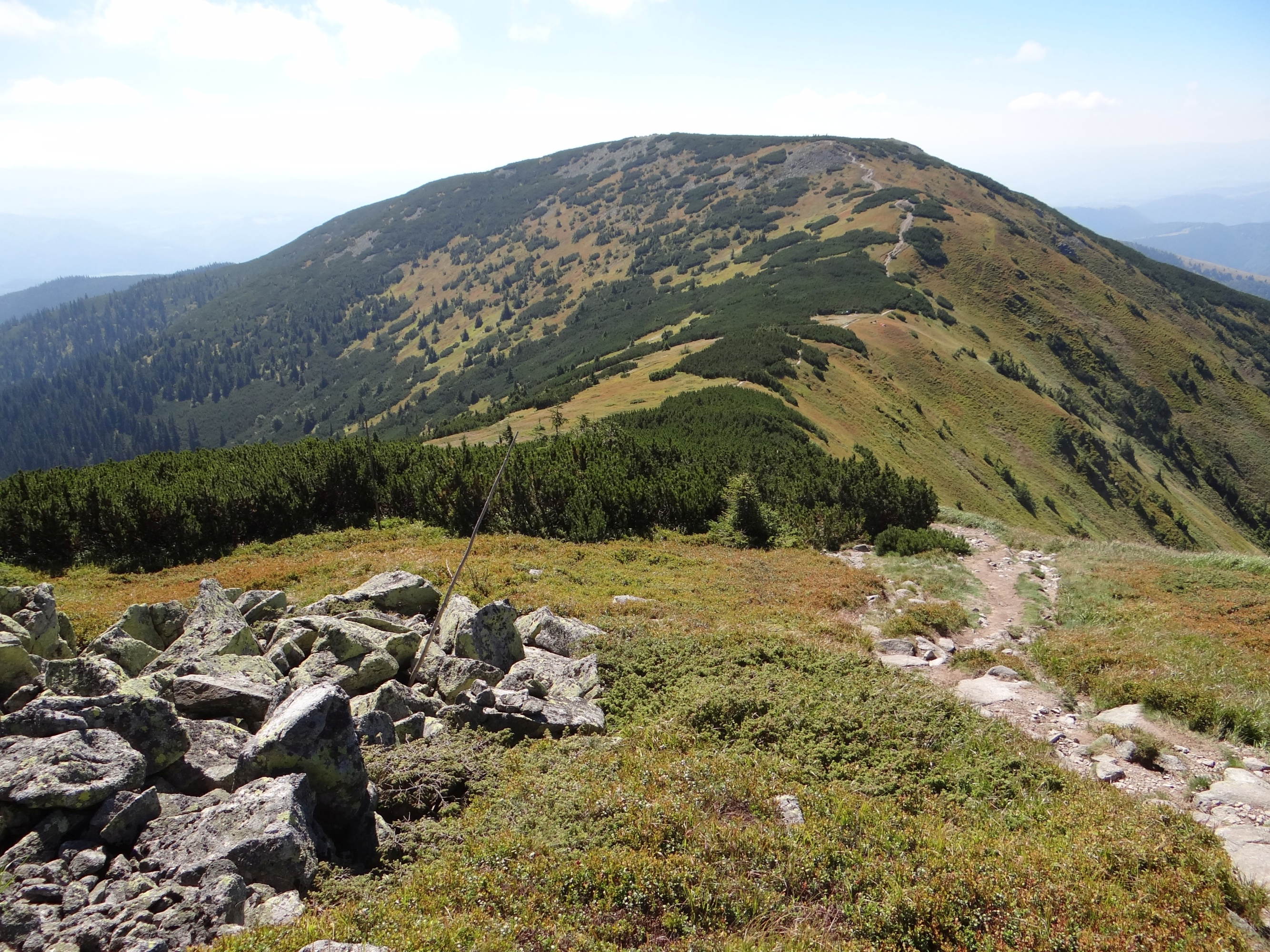 Prašivá, view from Malá Chochuľa